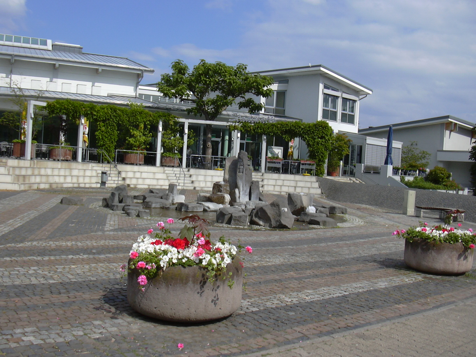 Gernsheim, new town hall